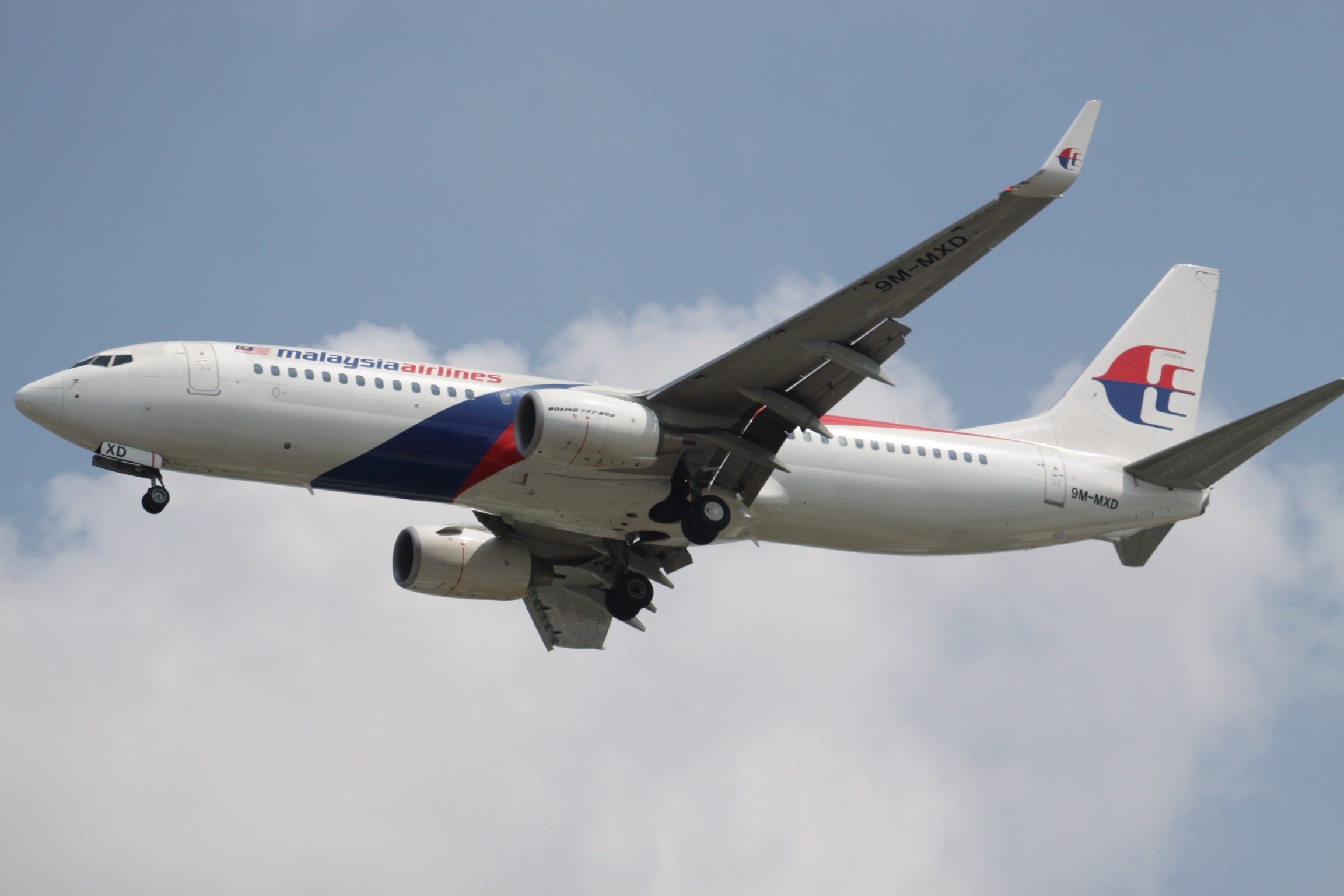 At Ho Chi Minh City Tan Son Nhat